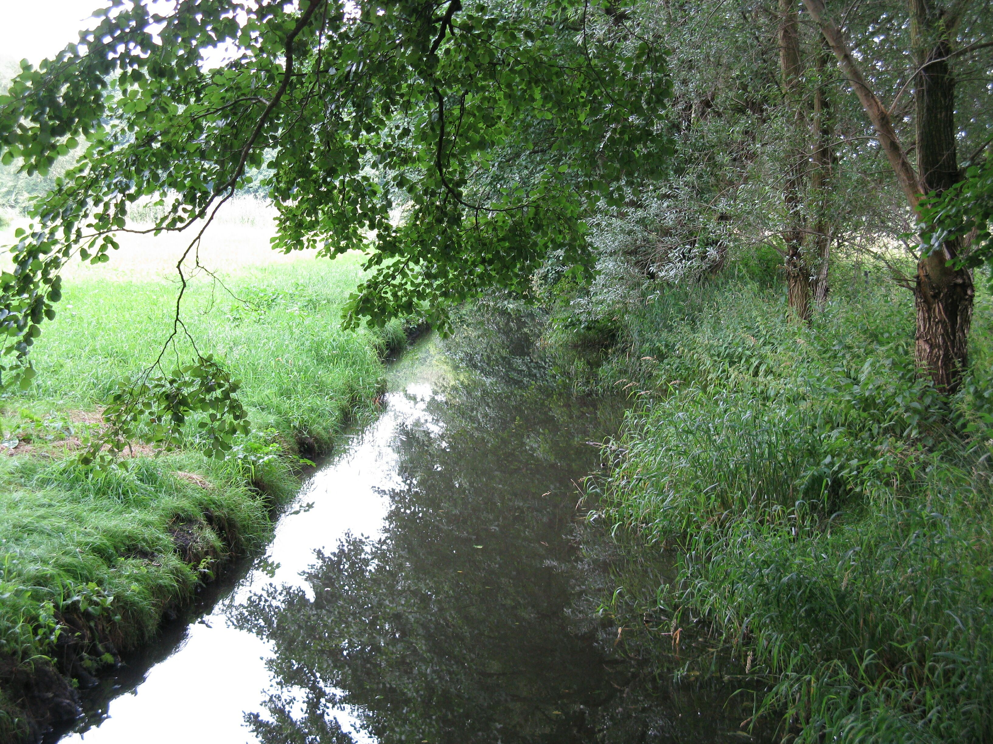 Belm: Belmer beck